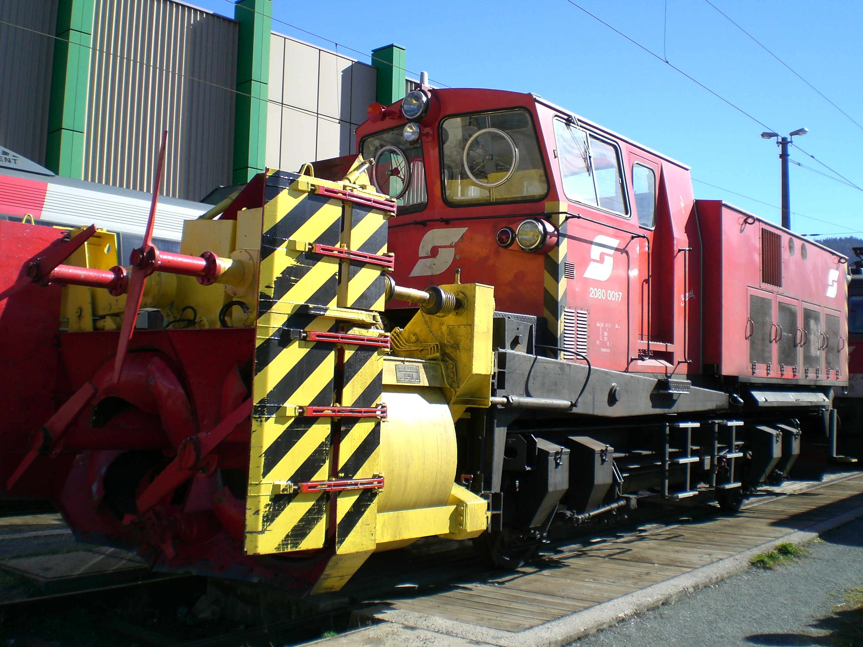 ÖBB snowblower 2080 001-7 (Beilhack) in Innsbruck, Austria